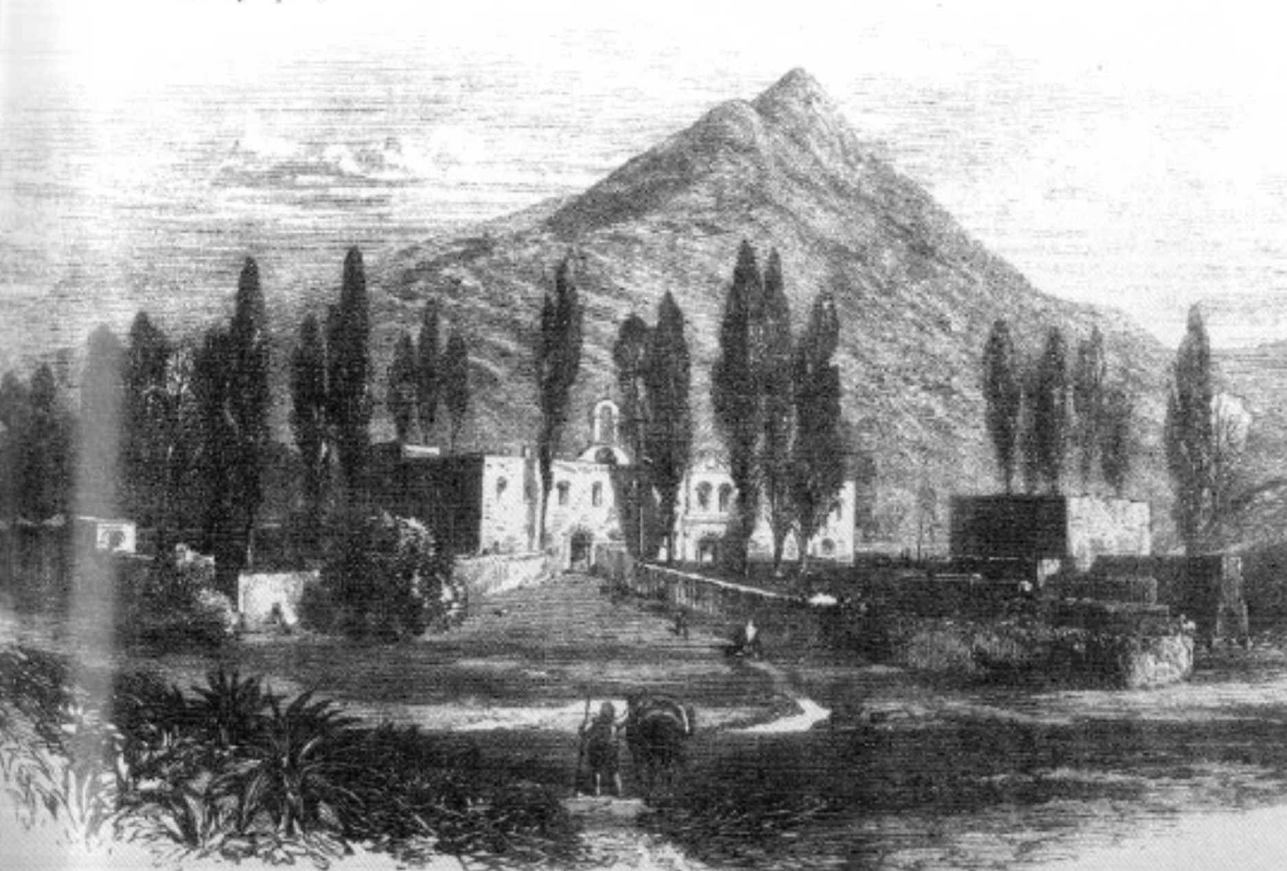 View of the Monastery of Arkadi